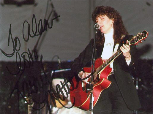 Kathy Mattea - Feb 1989 Photo by Alan C. Teeple User:ACT1